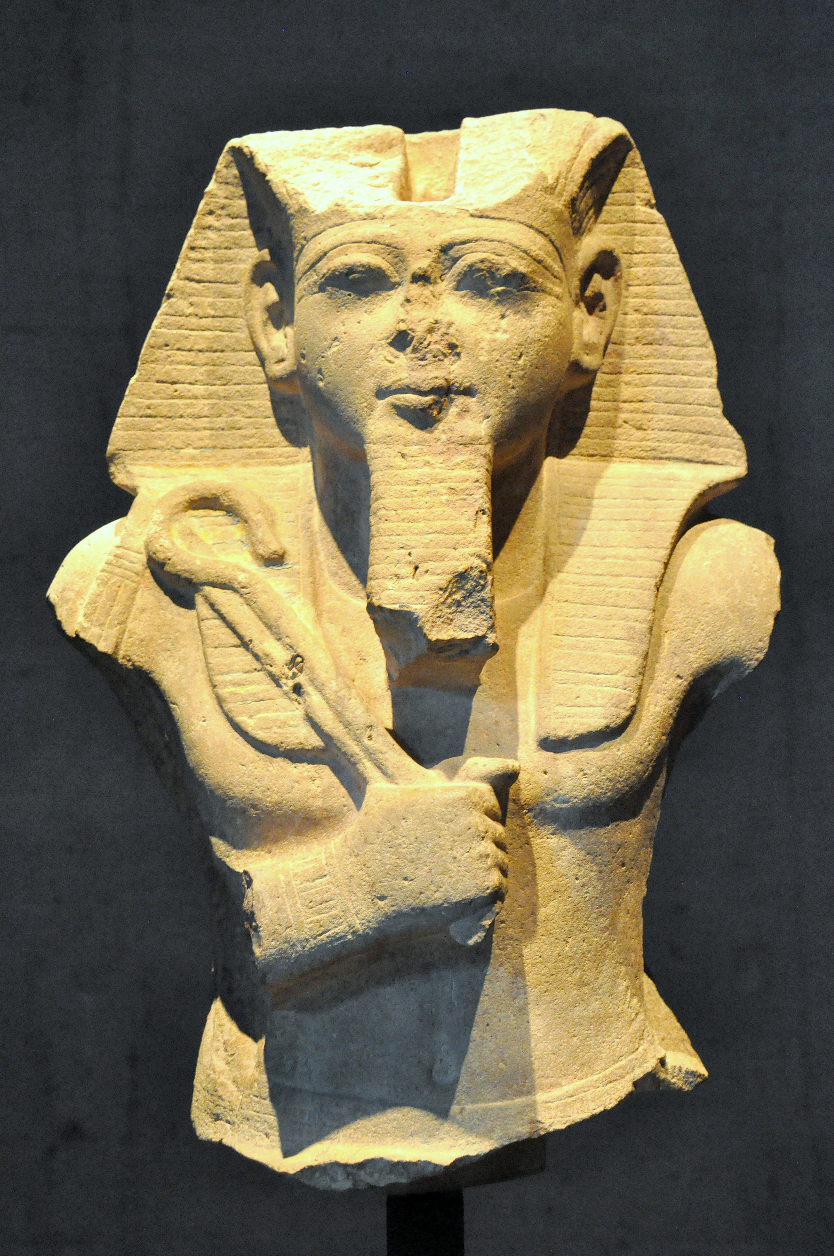 This is the upper part of a sandstone seated statue of the Egyptian pharaoh Ramesses II. He holds a crook and a flail. New Kingdom, 19th Dynasty, c. 1240 BC. From Nubia, in modern-day Upper Sudan. State Museum of Egyptian Art, Munich, Germany.